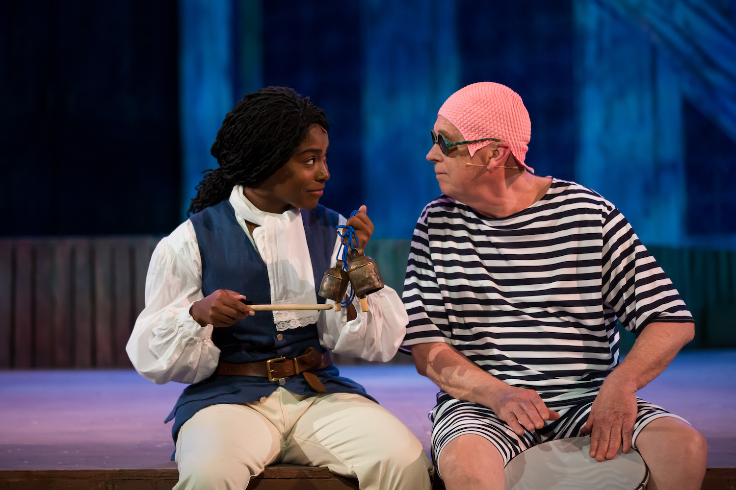 Twelfth Night, Colorado Shakespeare Festival, 2019, Mary Rippon Outdoor Theatre